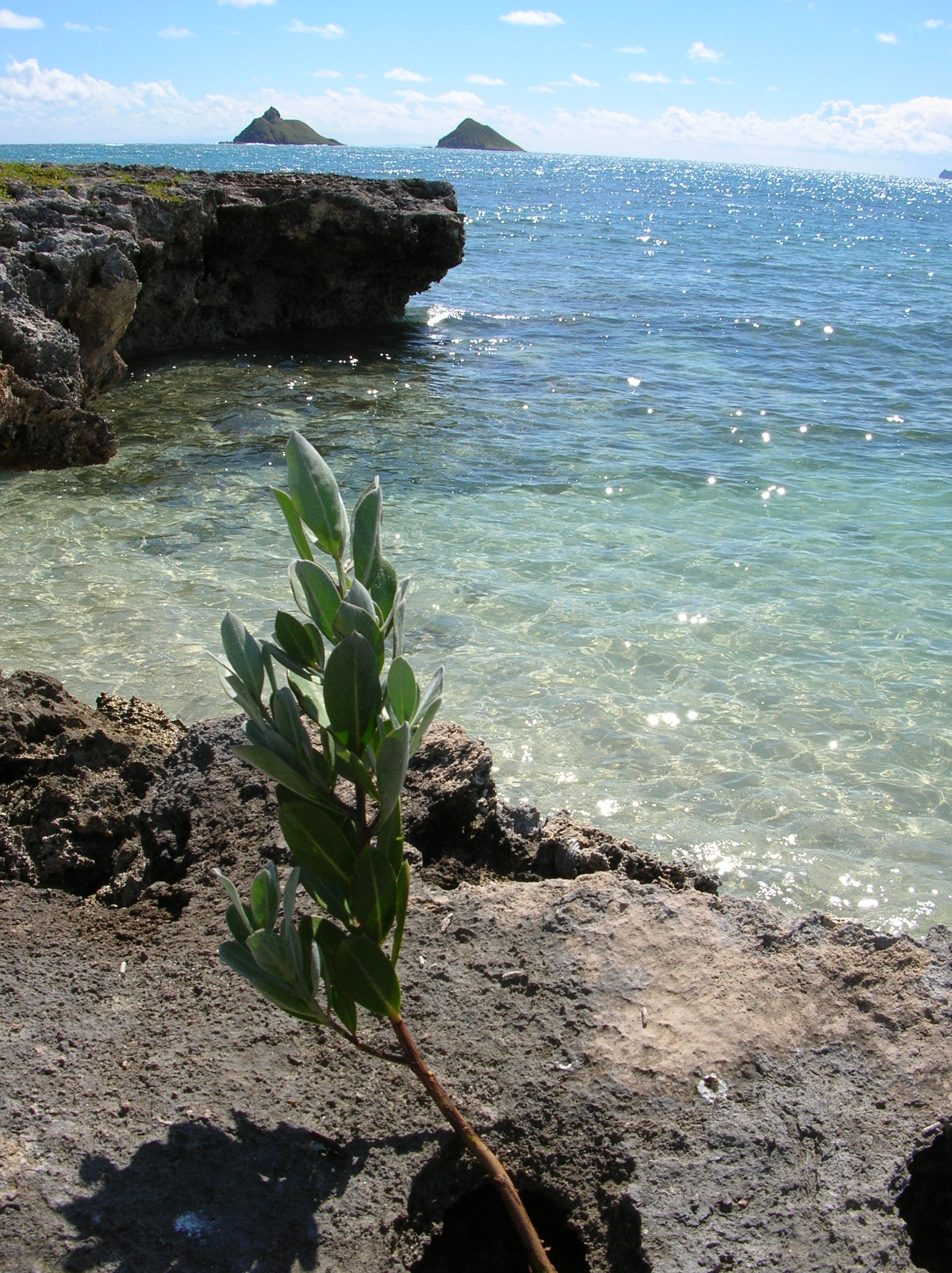 Conocarpus erectus (habit). Location: Oahu, Popoia